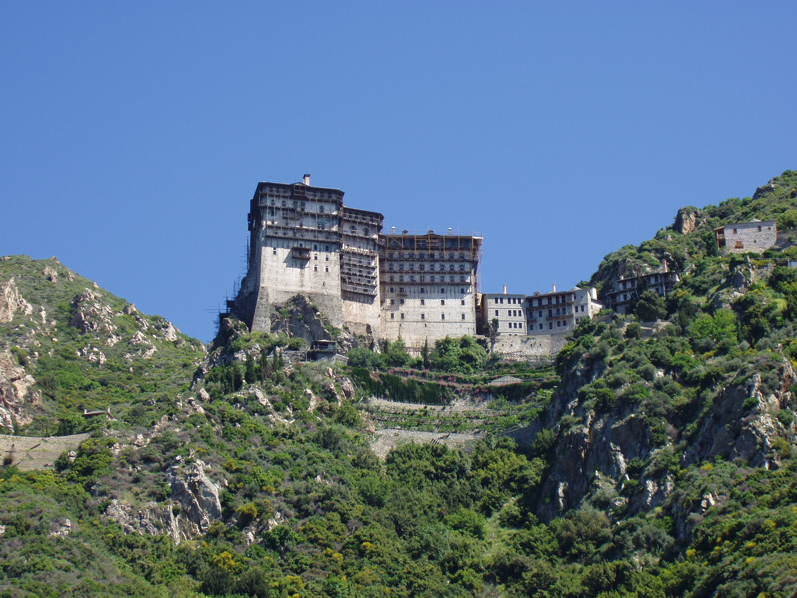 Simonopetra monastery in Agio Oros, Athos, Greece